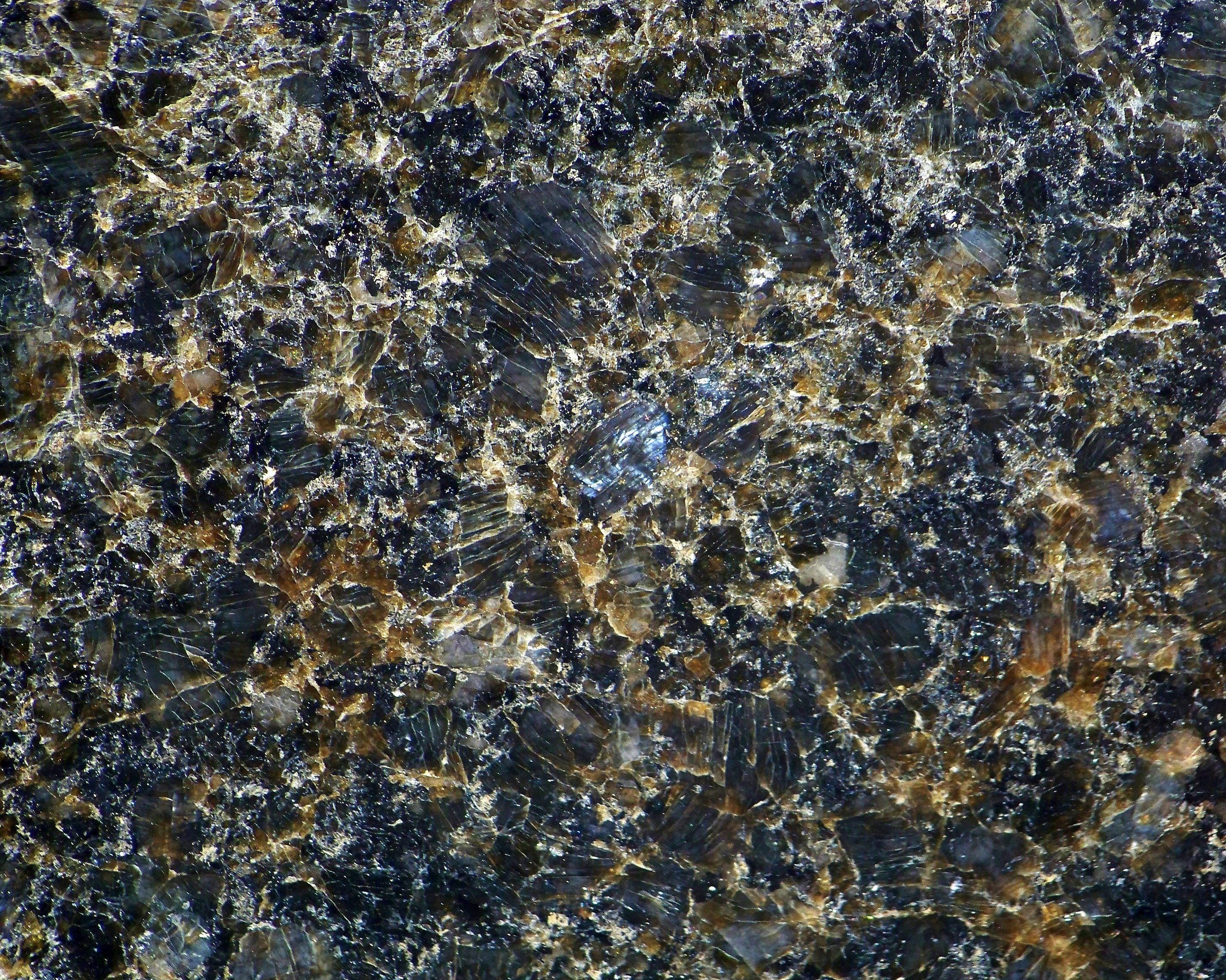 Charnockite plate from Varberg, Sweden.